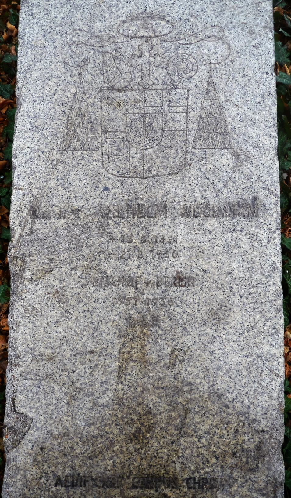 Memorial plate for bishop Wilhelm Weskamm at Alter Friedhof der Sankt-Hedwig-Gemeinde in Berlin